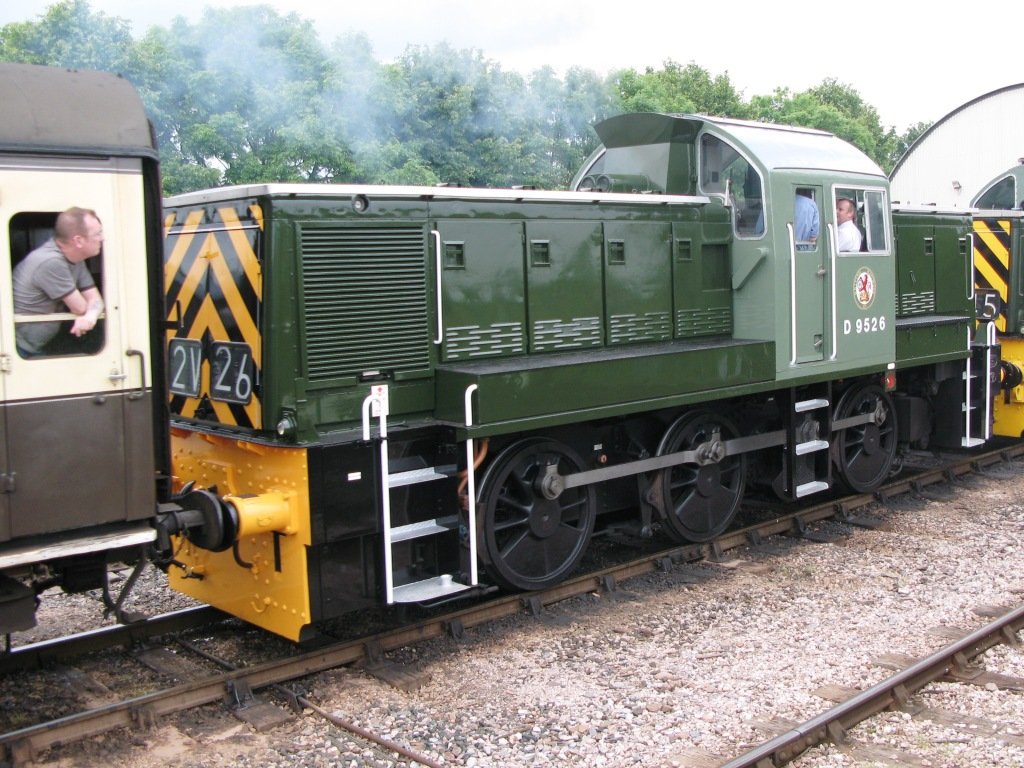 Class 14 9526 (double headed with visiting twin 9520) calls at Williton station on the West Somerset Railway in England.